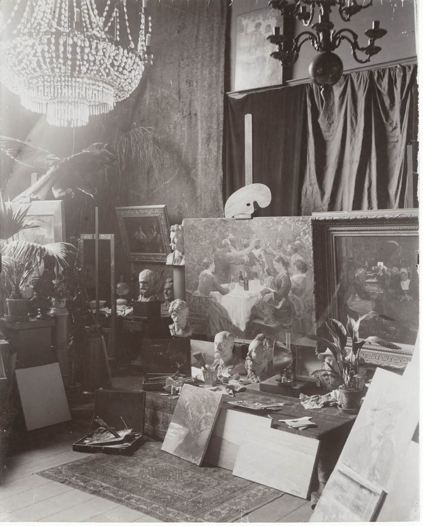 Photograph of Peder Severin Krøyer's studio in Copenhagen.